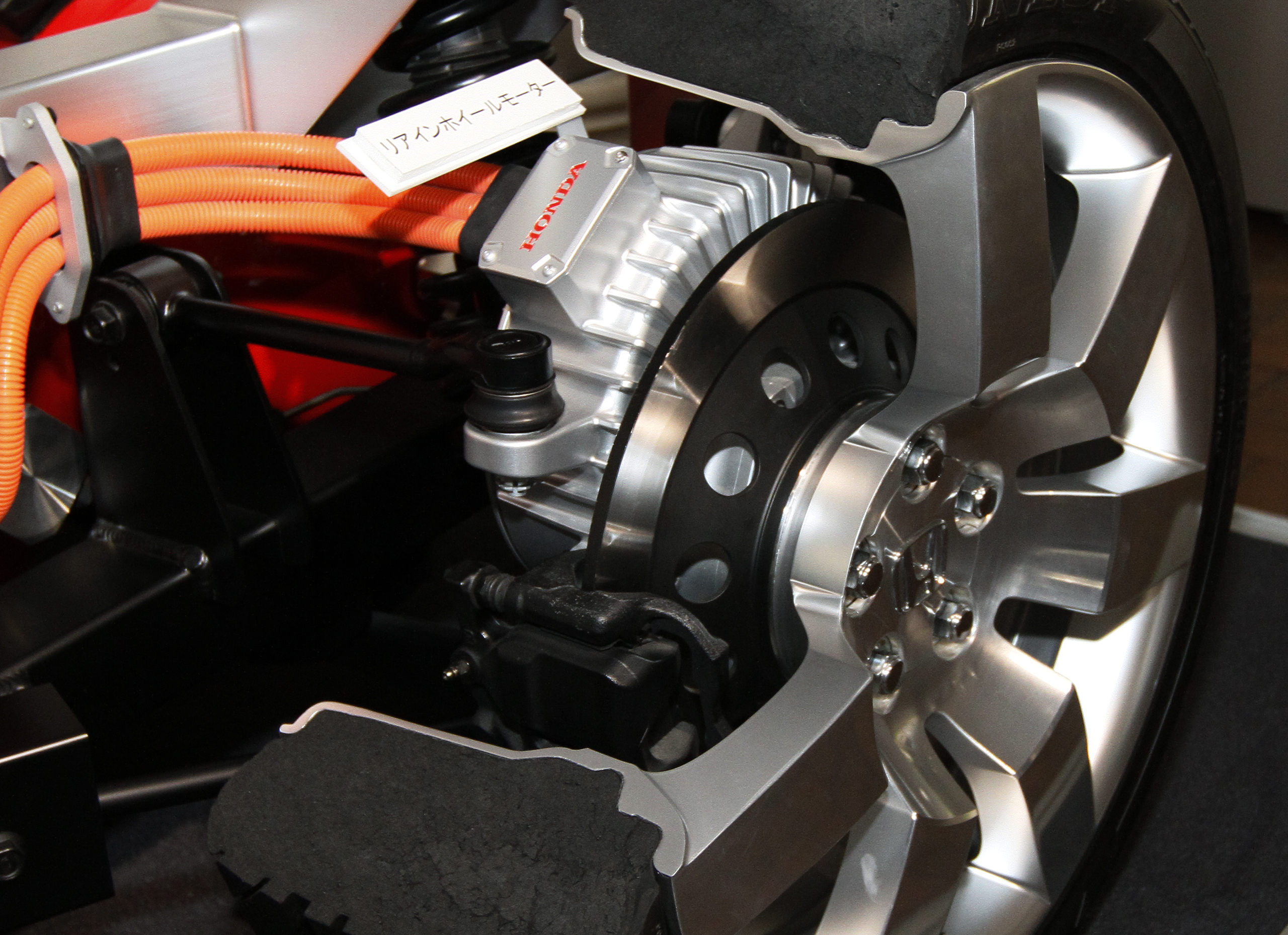 Honda FCX prototype; the V Flow F.C. Platform